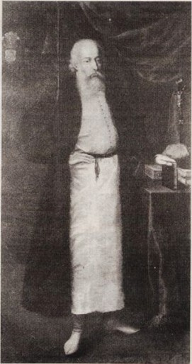 A photo of Tomasz Gocłowski, a founder of Saint Anthony's Church in Ostrołęka (Poland).